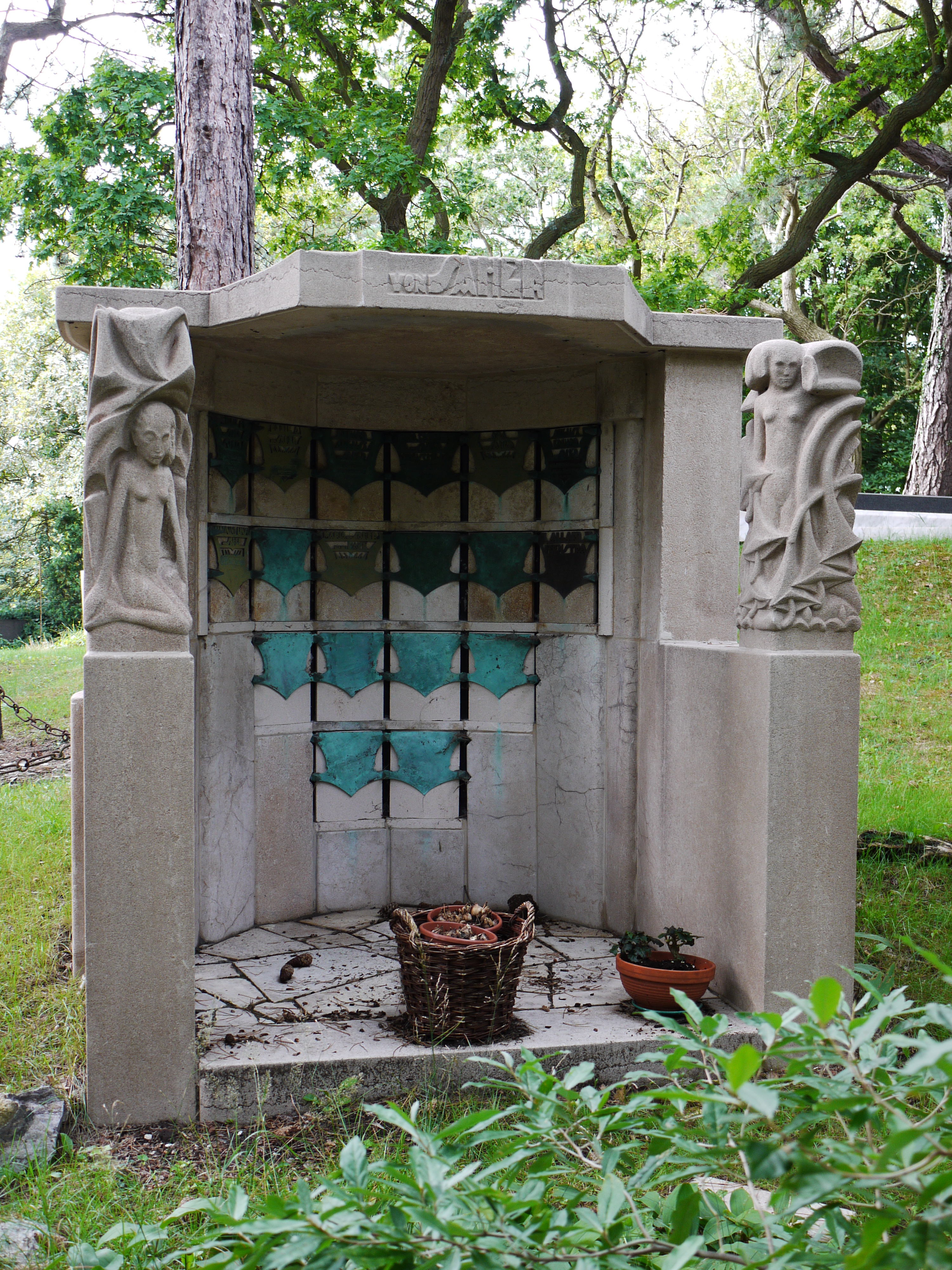 Grave of the family Von Saher, at Westerveld graveyard. Made by Hildo Krop ±1920